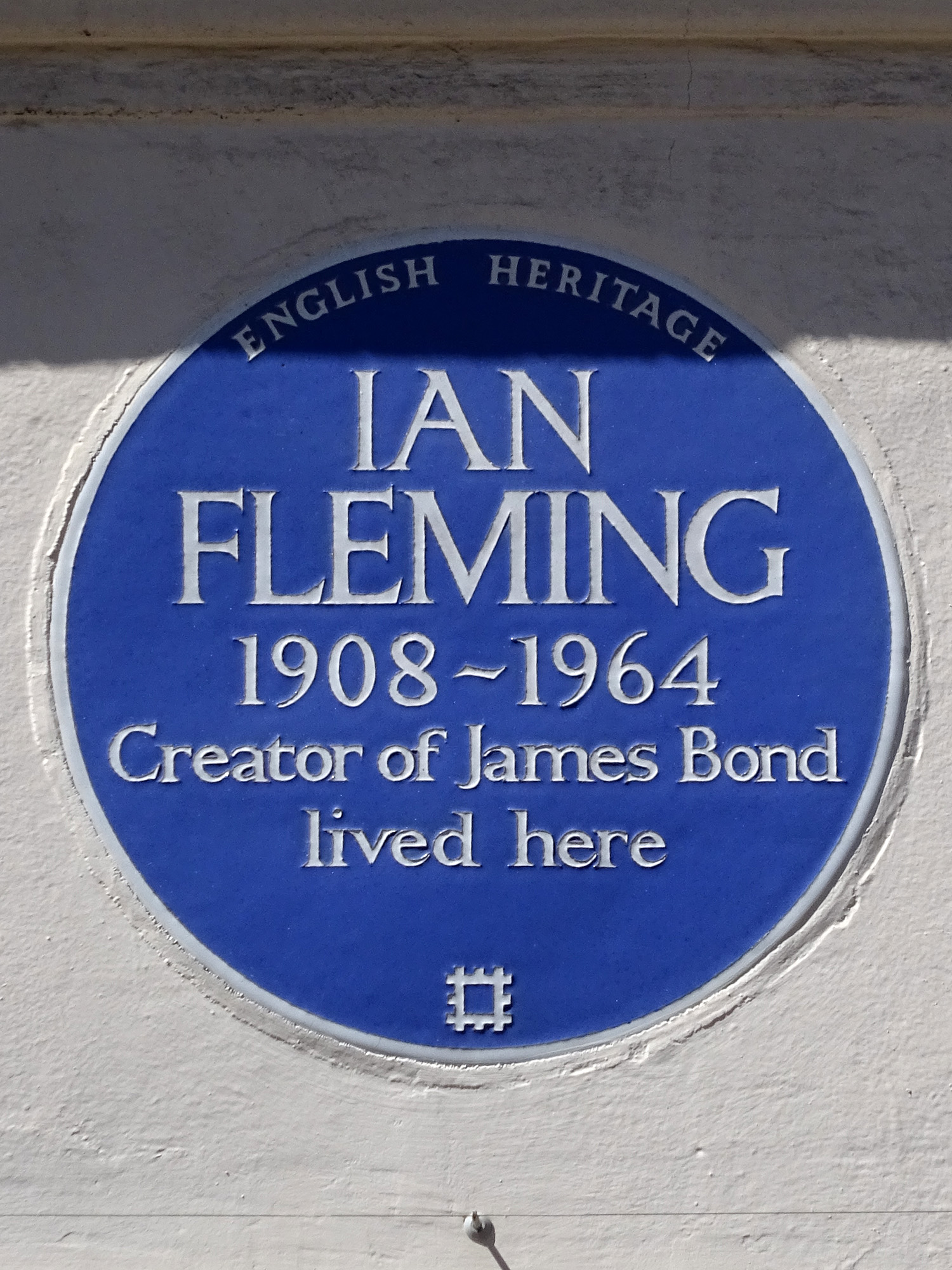 Blue plaque erected in 1996 by English Heritage at 22 Ebury Street, Belgravia, London SW1W 8LW, City of Westminster